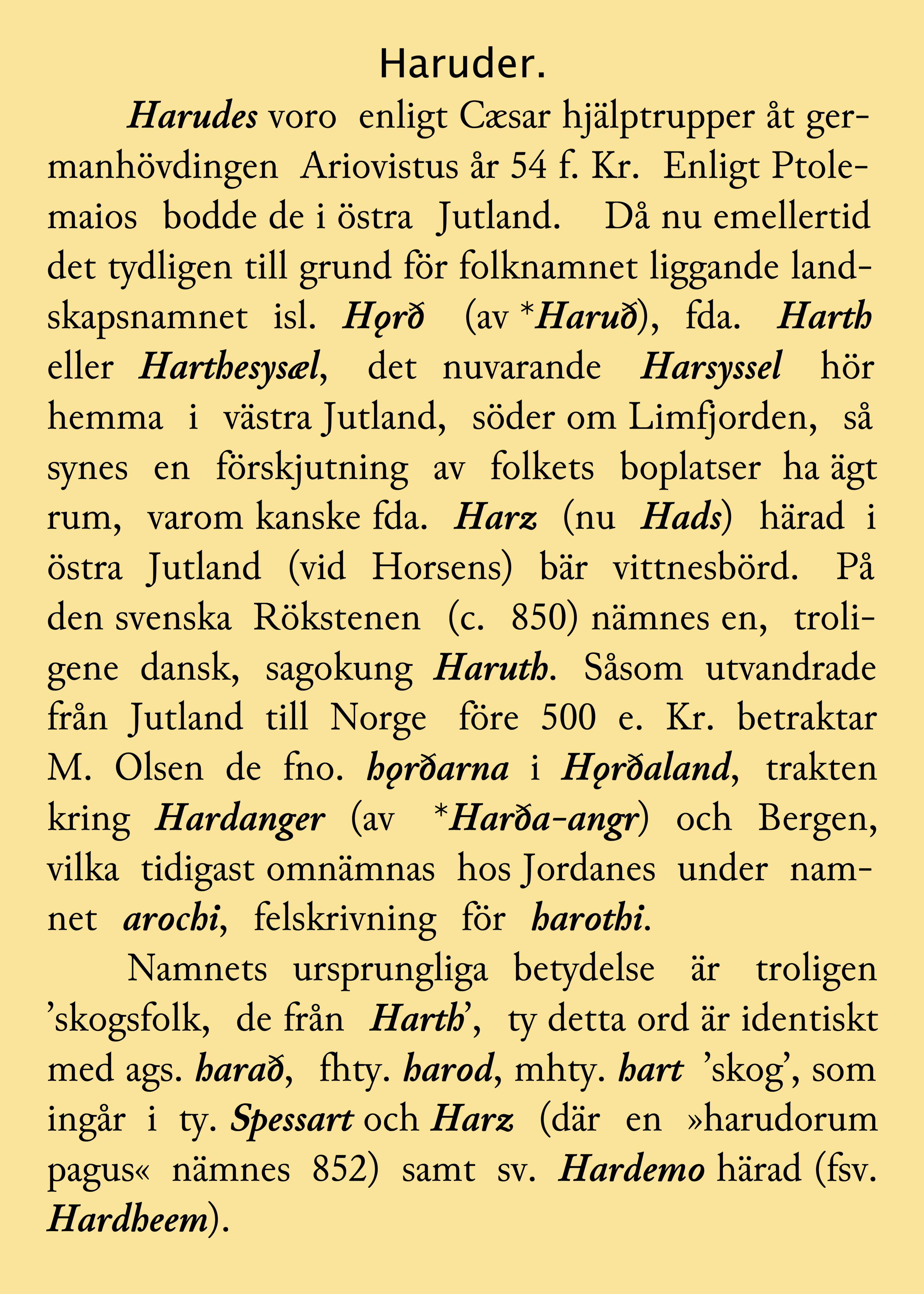 A philological explanation of the ancient ethnic name "Harudes", by the well known linguist Adolf Noreen (1854-1925).